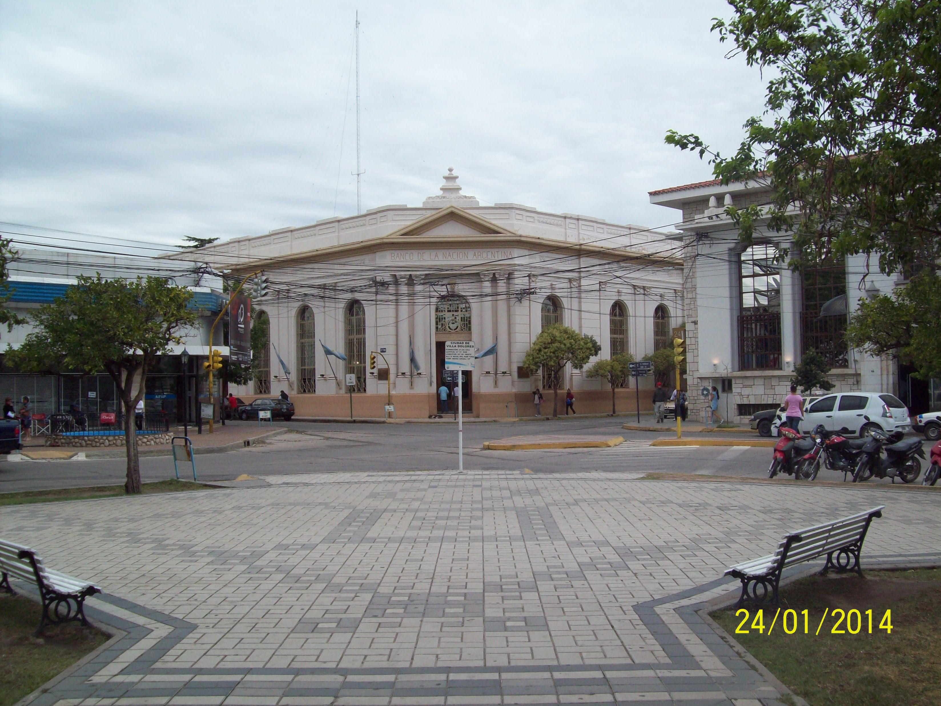 Banco de la Nación Argentina. Villa Dolores, Córdoba.